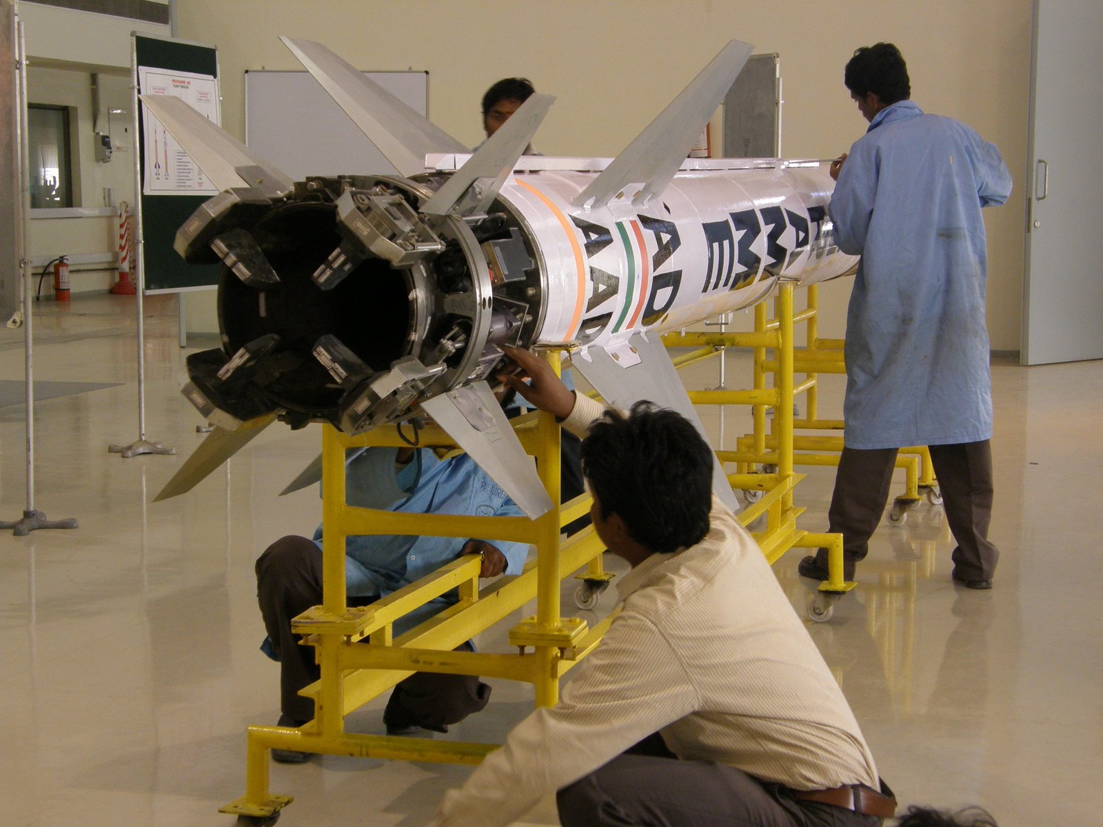 An image of the AAD Endo-atmospheric interceptor missile, being integrated at the Programme Air Defence ABM missile production facilities in Hyderabad. The AAD missile is a single stage missile, powered by a solid rocket motor. It is a part of India's Ballistic Missile Defense Program. It was first tested on 6th December 2007. Note the Missile Jet Vanes at the end of the rocket motor. The system provides for very quick pitch over and roll control during launch.